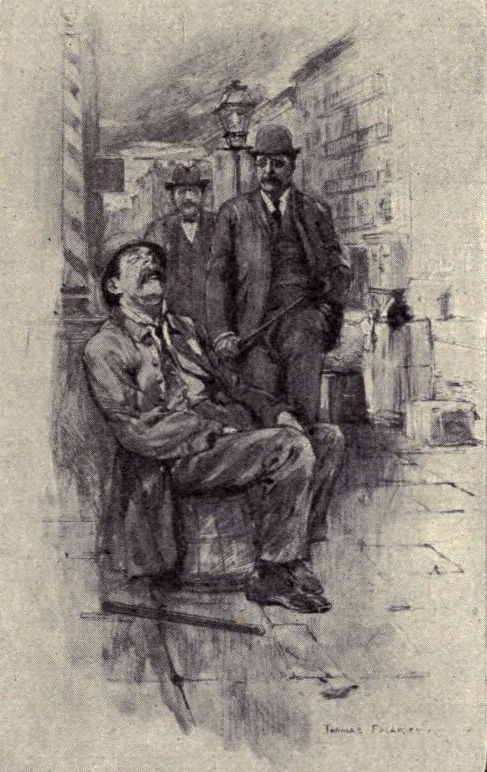 Illustration of Theodore Roosevelt and Jacob Riis walking the beat in NYC in 1894 when Roosevelt was New York City Police Commissioner